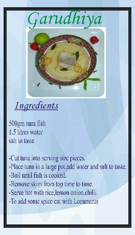 Garudhiya